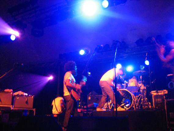 TV on the Radio at Pukkelpop 2006